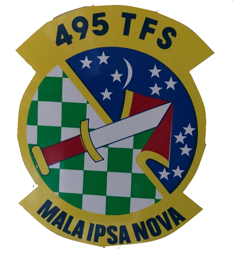 495th Tactical Fighter Squadron - Emblem